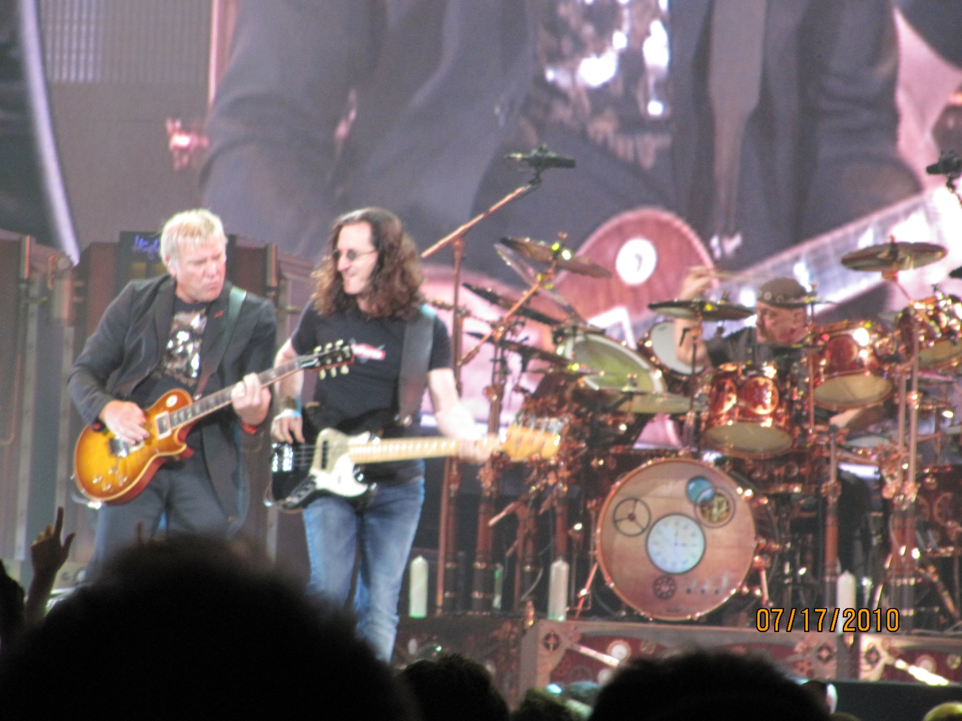 Shot of the band at the Air Canada Centre in Toronto.